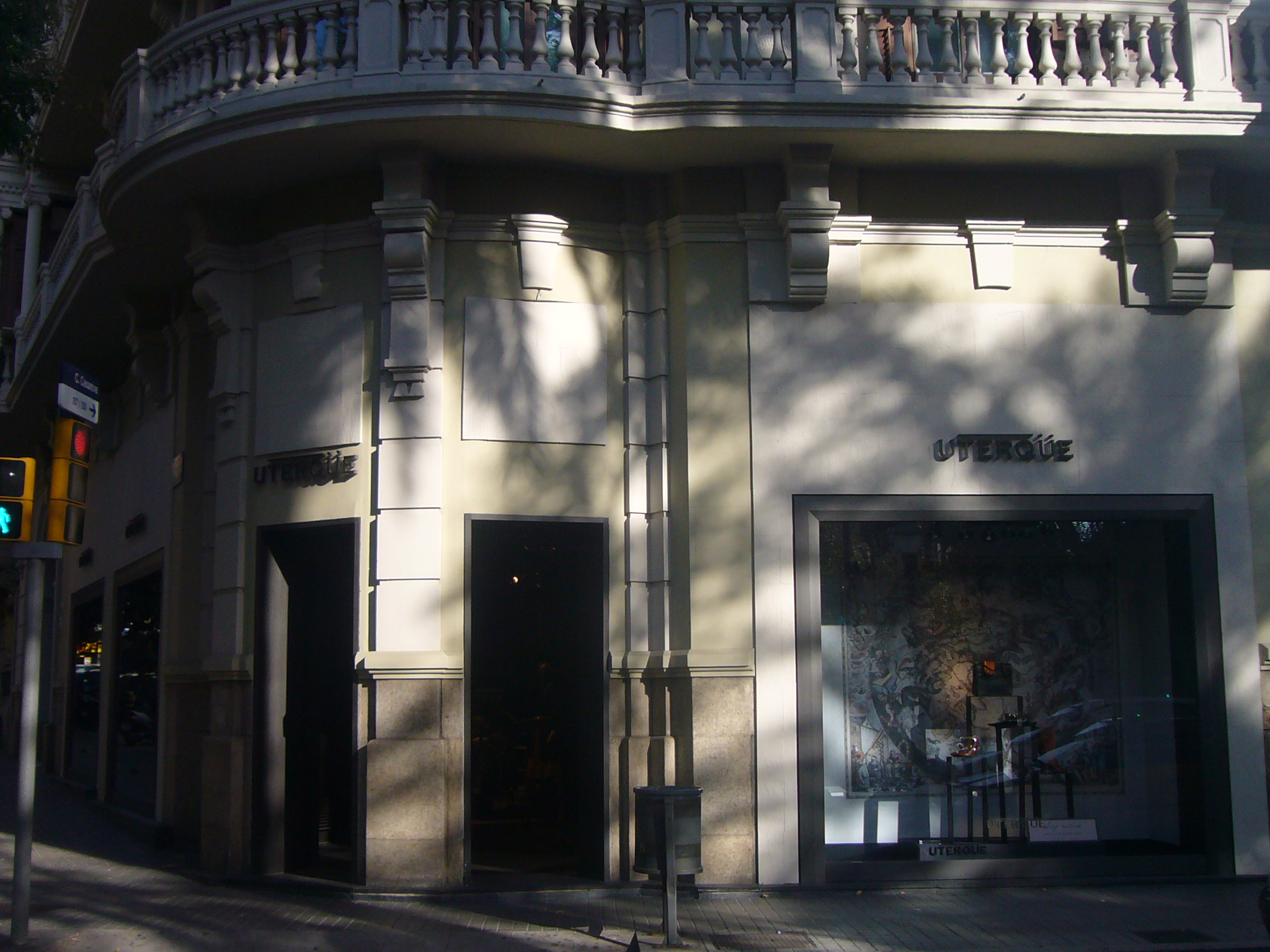 Uterqüe shop in Avinguda Diagonal - c/ Casanova, Barcelona